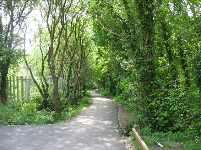 Path between the Maesgeirchen Housing Estate and the Llandygai Industrial Estate This route provides a handy short-cut between the two estates.